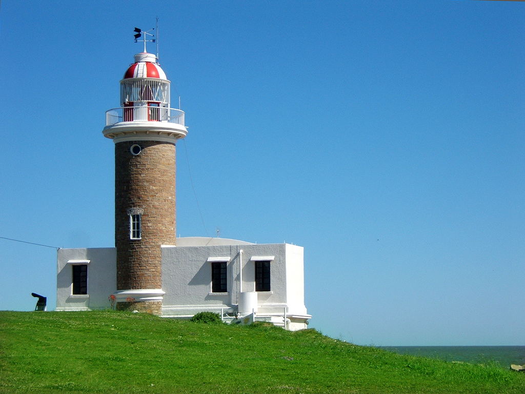 Classic view of this remarkable landmark located on the tip of Montevideo's southern coast.